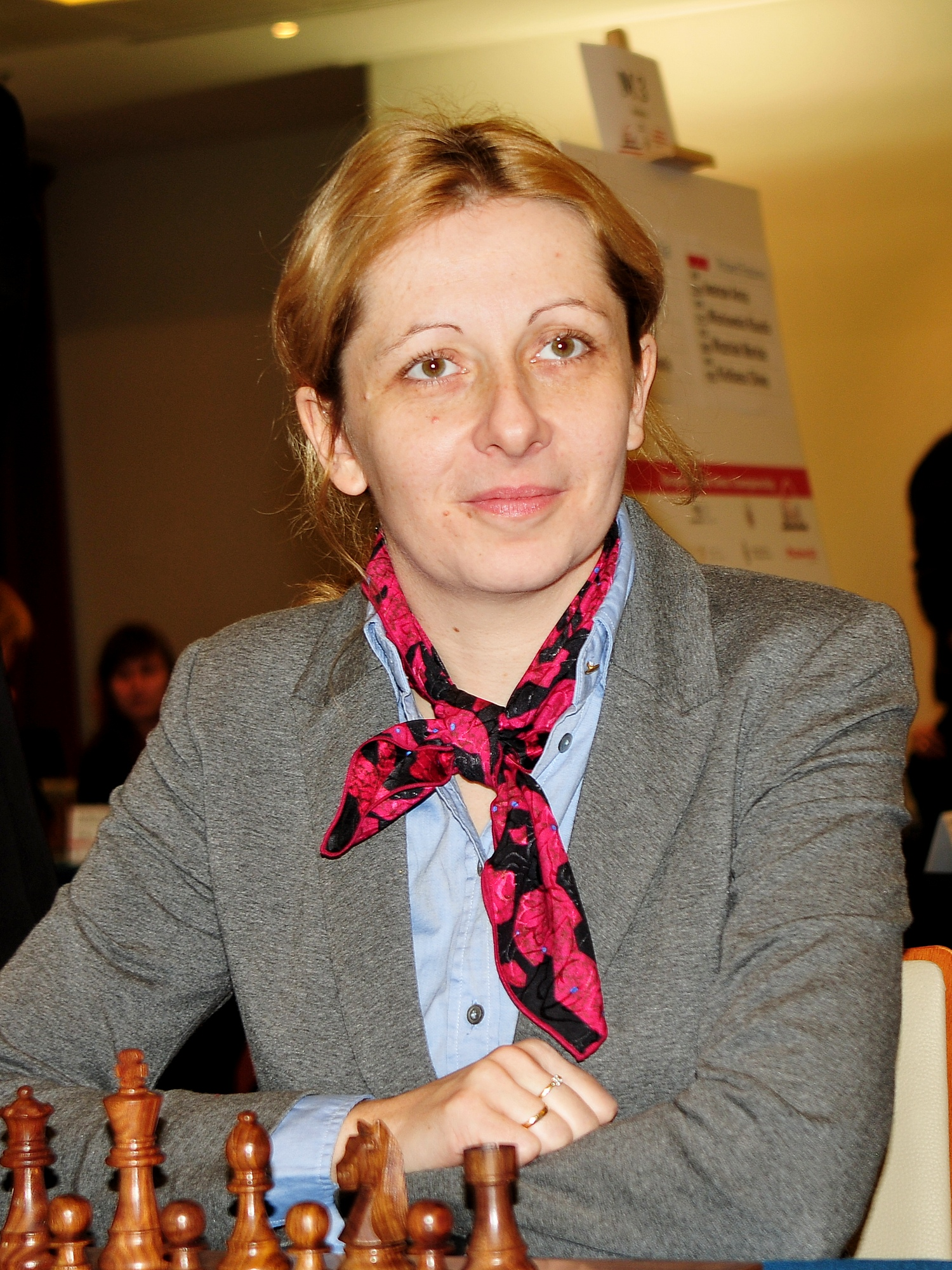 GM Monika Soćko, European Chess Team Championship Warsaw 2013